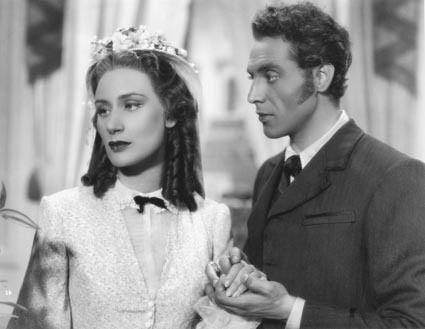 screenshot from the film Sissignora (1941)